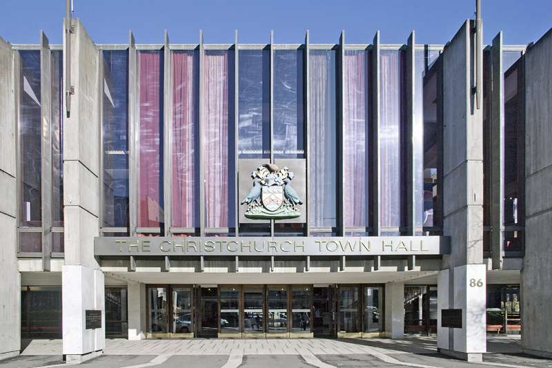 Main entrance of the Christchurch Town Hall.